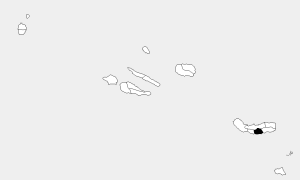 Map of the Azores showing Vila Franca do Campo.